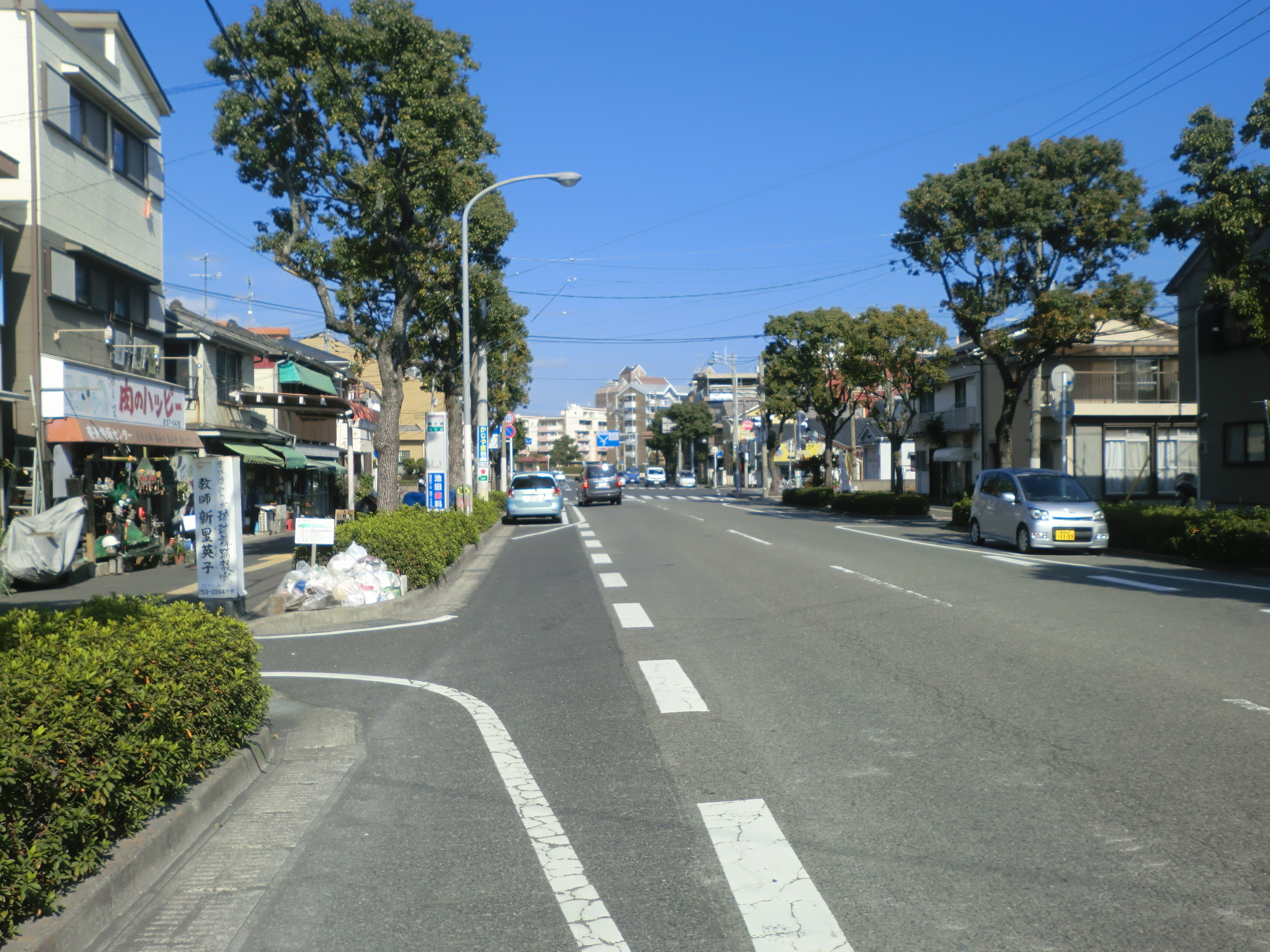 Townscape of Sanwacho in Kagoshima, Kagoshima, Japan.